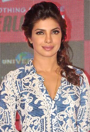 Priyanka Chopra celebrates EXOTIC's success at Jealous 21 store